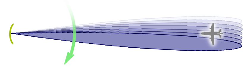 explanation of the terms “Dwell Time” and “Hits per Scan”